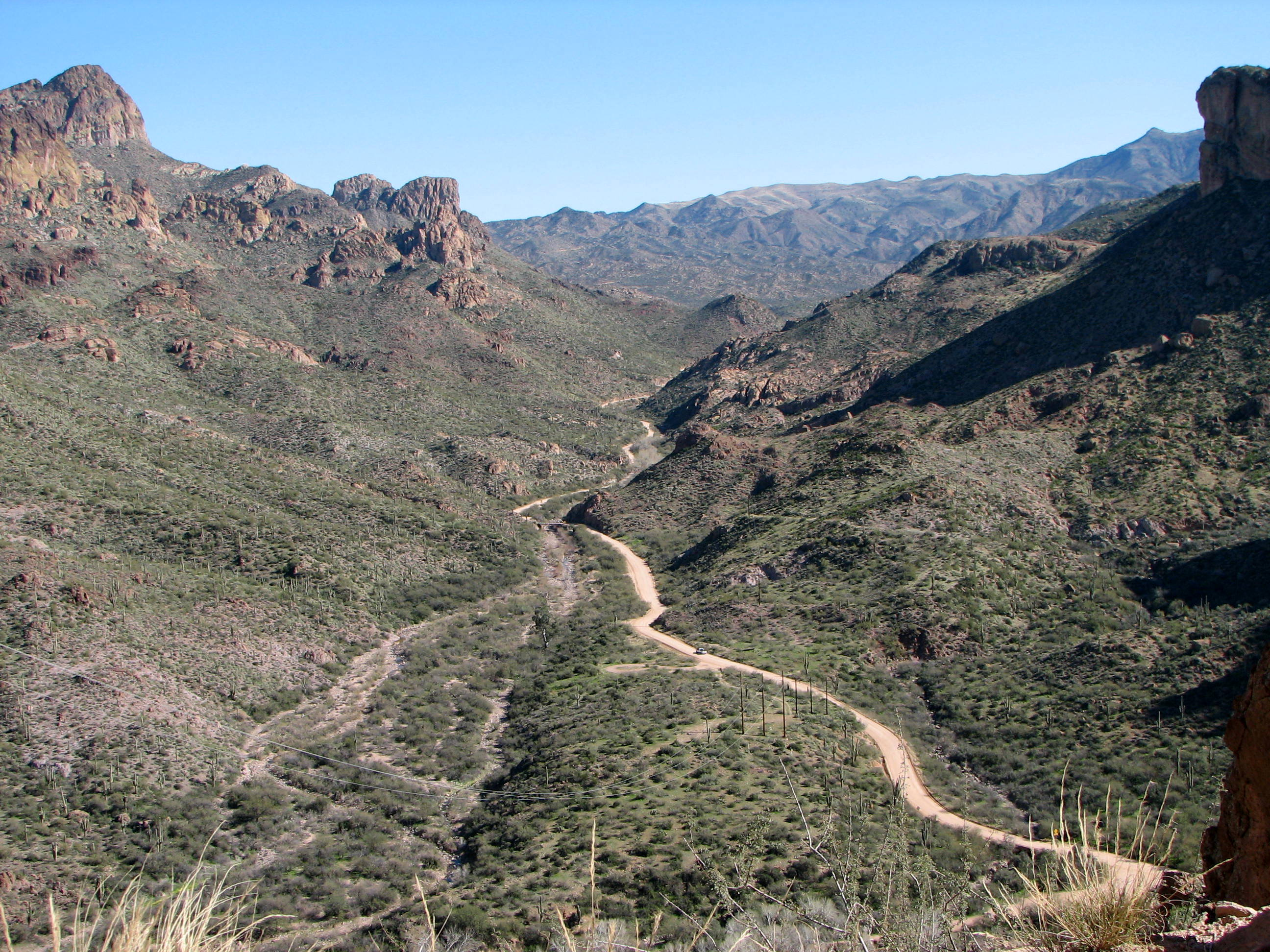 Apache Trail (State Route 88) at Fish Creek Hill — in the Superstition Mountains, Arizona